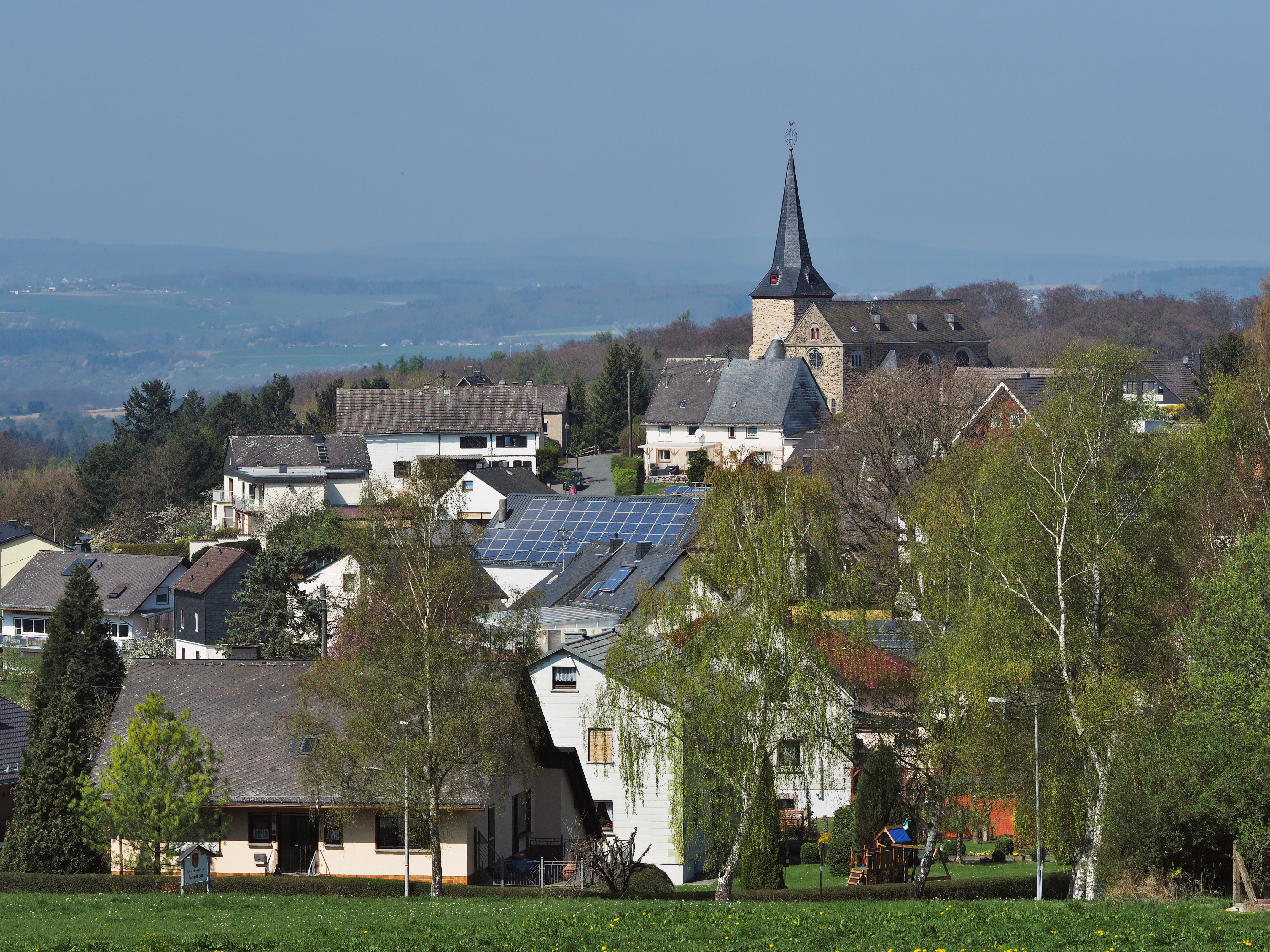 Schönborn village from the south-east